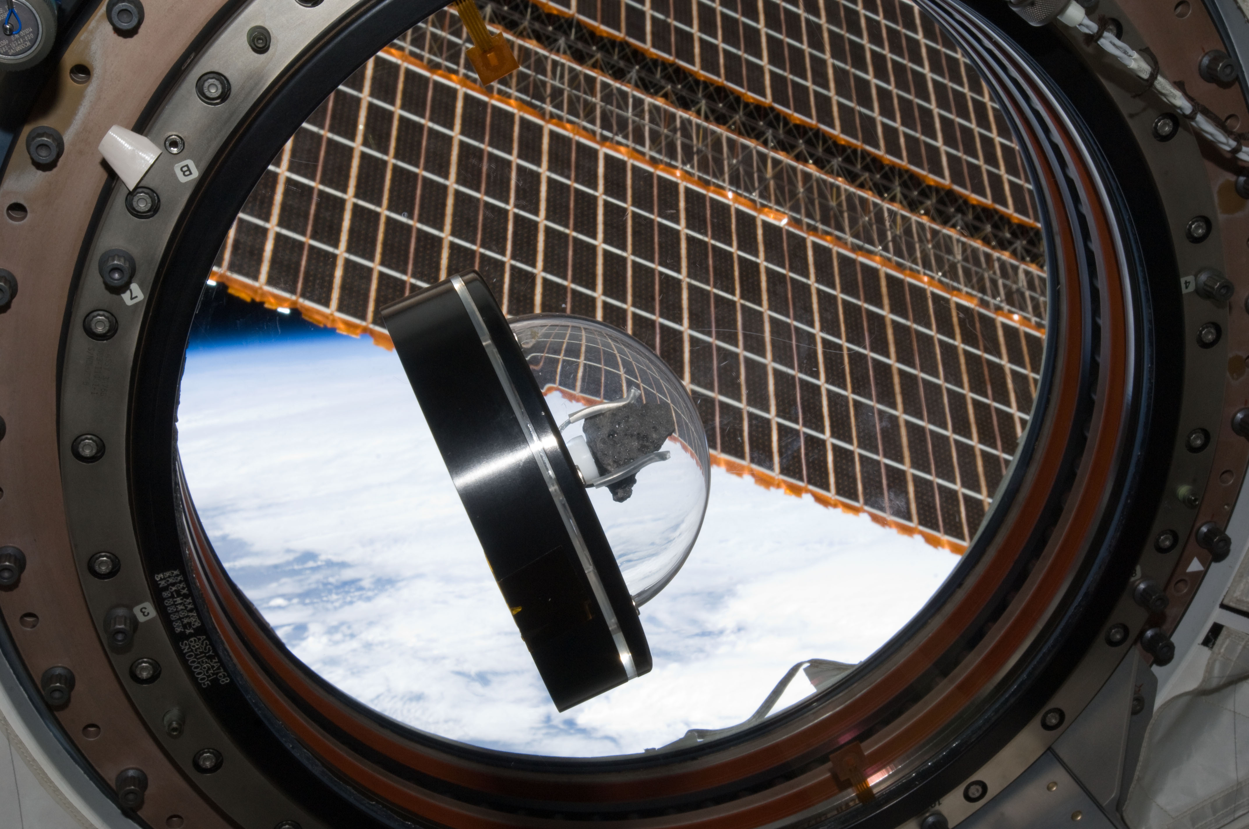 A moon rock brought to Earth by Apollo 11, humans' first landing on the moon in July 1969, is shown as it floats aboard the International Space Station. Part of Earth and a section of a station solar panel can be seen through the window. The 3.6 billion year-old lunar sample was flown to the station aboard Space Shuttle mission STS-119 in April 2009 in honor of the July 2009 40th anniversary of the historic first moon landing. The rock, lunar sample 10072, was flown to the station to serve as a symbol of the nation's resolve to continue the exploration of space. It will be returned on shuttle mission STS-128 to be publicly displayed